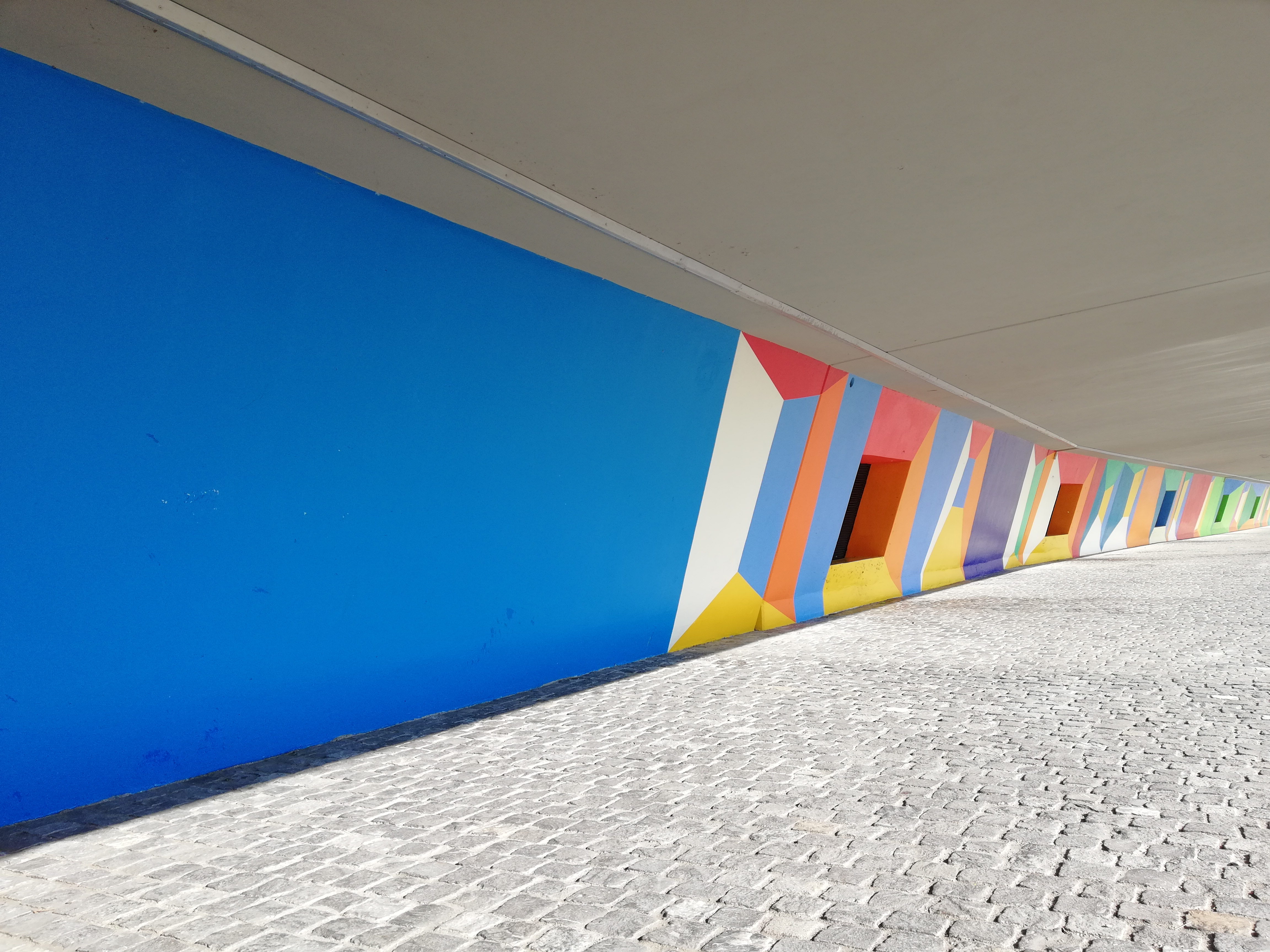 Katastrophenbucht Zug (Switzerland) with Maria Bettina Cogliatti's public artwork Trompe-l’œil (1998)